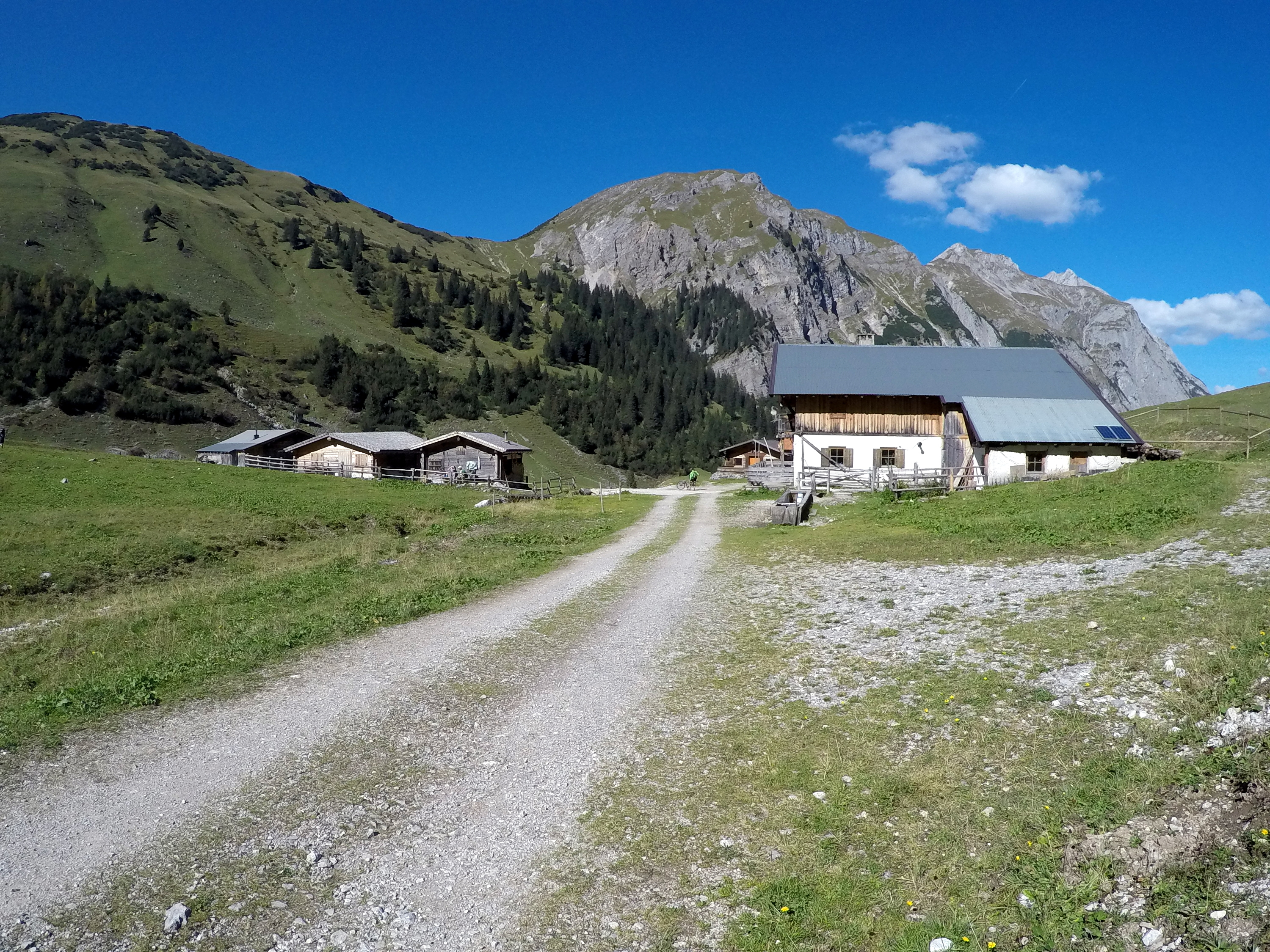 Lalidersalm, 1526 m, Niederleger, Karwendel, Austria